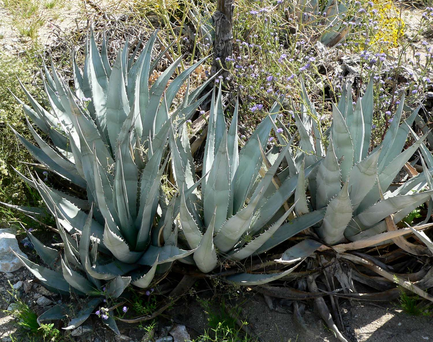 Photo of Agave deserti in Palm Canyon, California